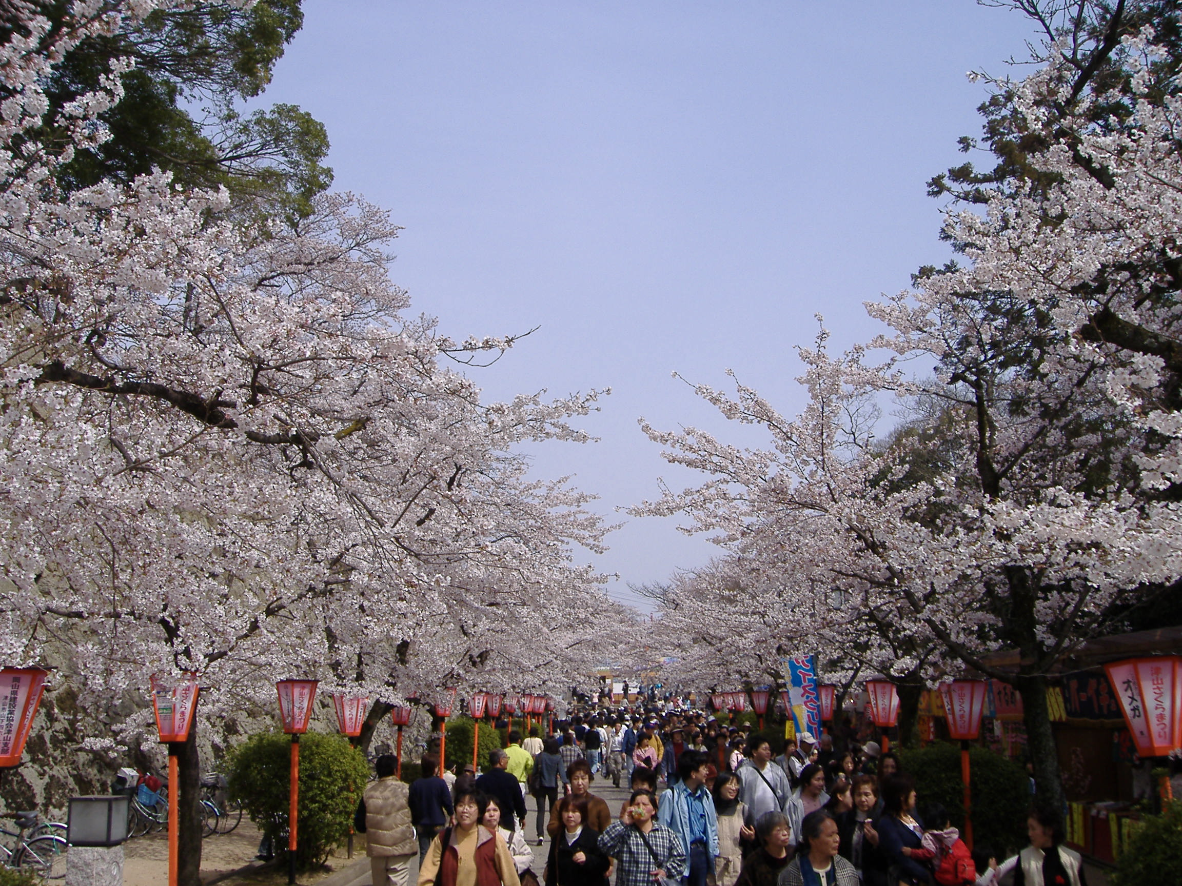 The entrance to Tsuyama's Cherry Blossom Festival is lined by blossoms.